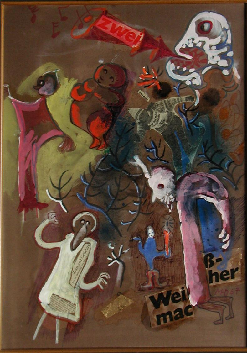 Pantha Rhei, Mixed Technics, 35x49 cm, 1967 (WV-Nr.3569)